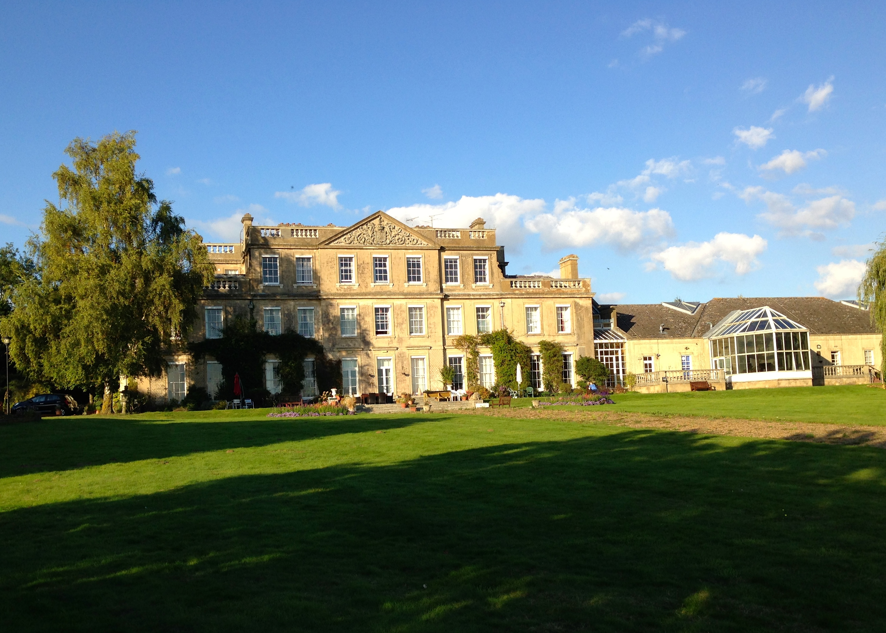 Stagenhoe, a grade II listed 18th-century manor house in St Paul's Walden, Hertfordshire. Back view of the manor house, taken close to the perimeter wall.